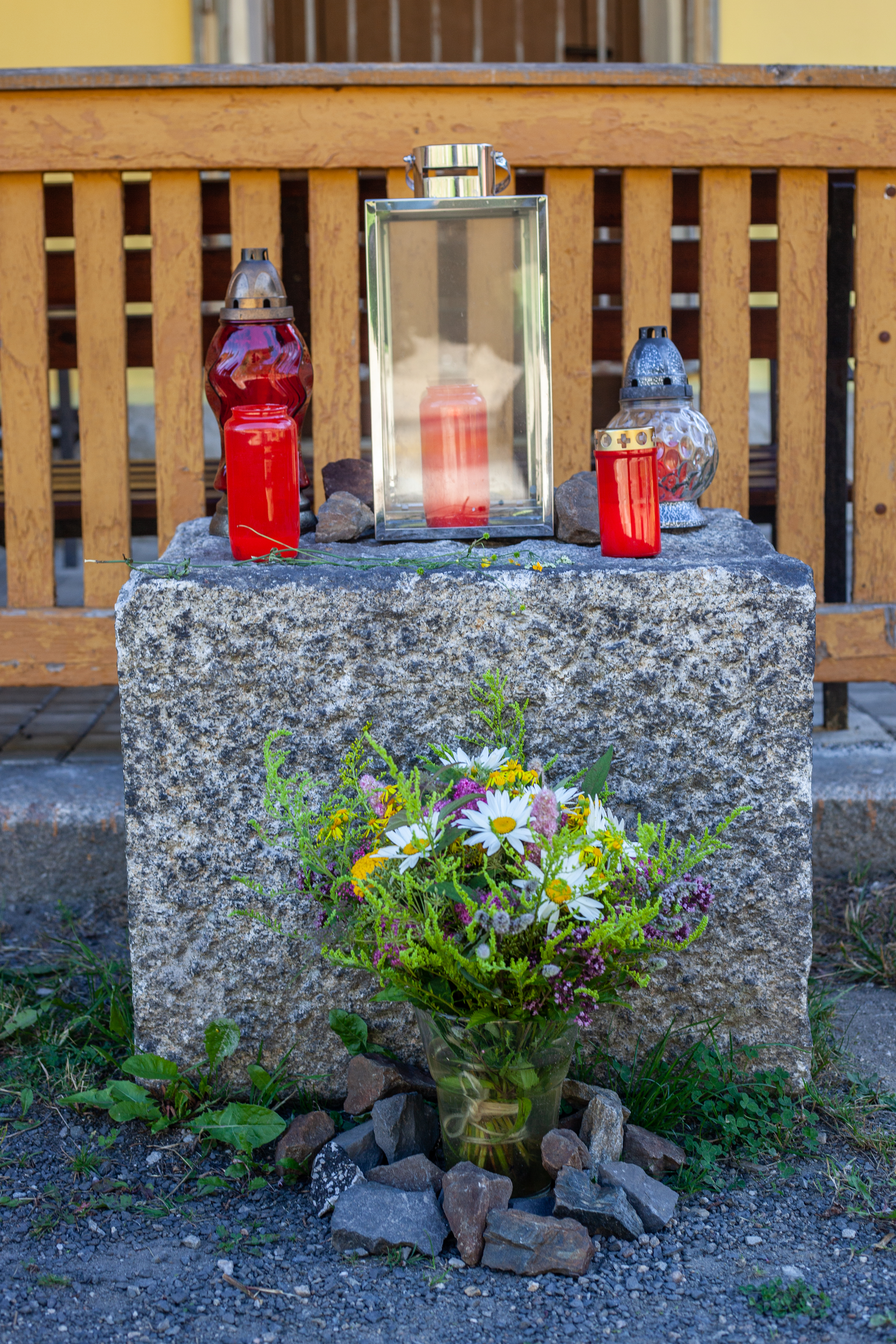 Place of reverence of the railway accident near Pernink at Pernink railway station, Karlovy Vary District, Karlovy Vary Region, Czechia